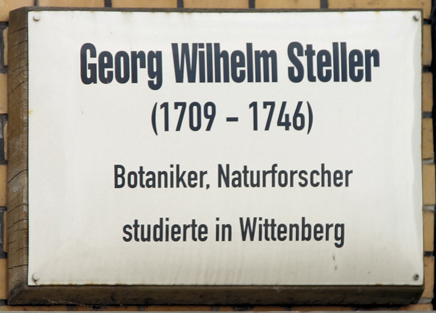 Memorial plaque, Georg Wilhelm Steller, Schloßstraße 3, Lutherstadt Wittenberg, Germany Koordinate:51°52′0″N 12°38′18″E / 51.866667°N 12.63833°E